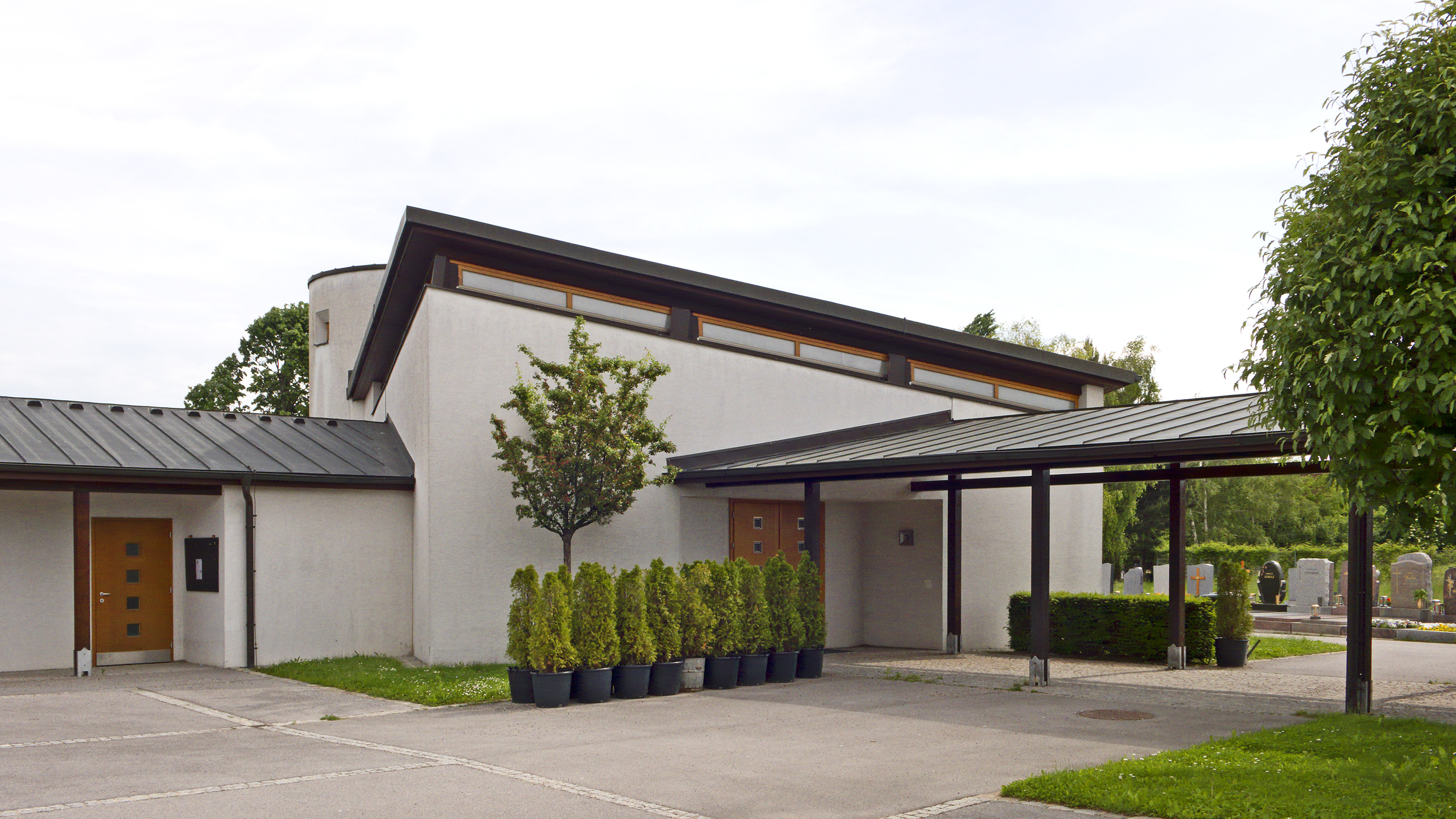 Cemetery Esslinger Friedhof in Vienna Donaustadt